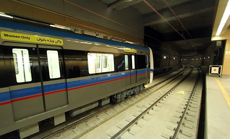 Shiraz metro